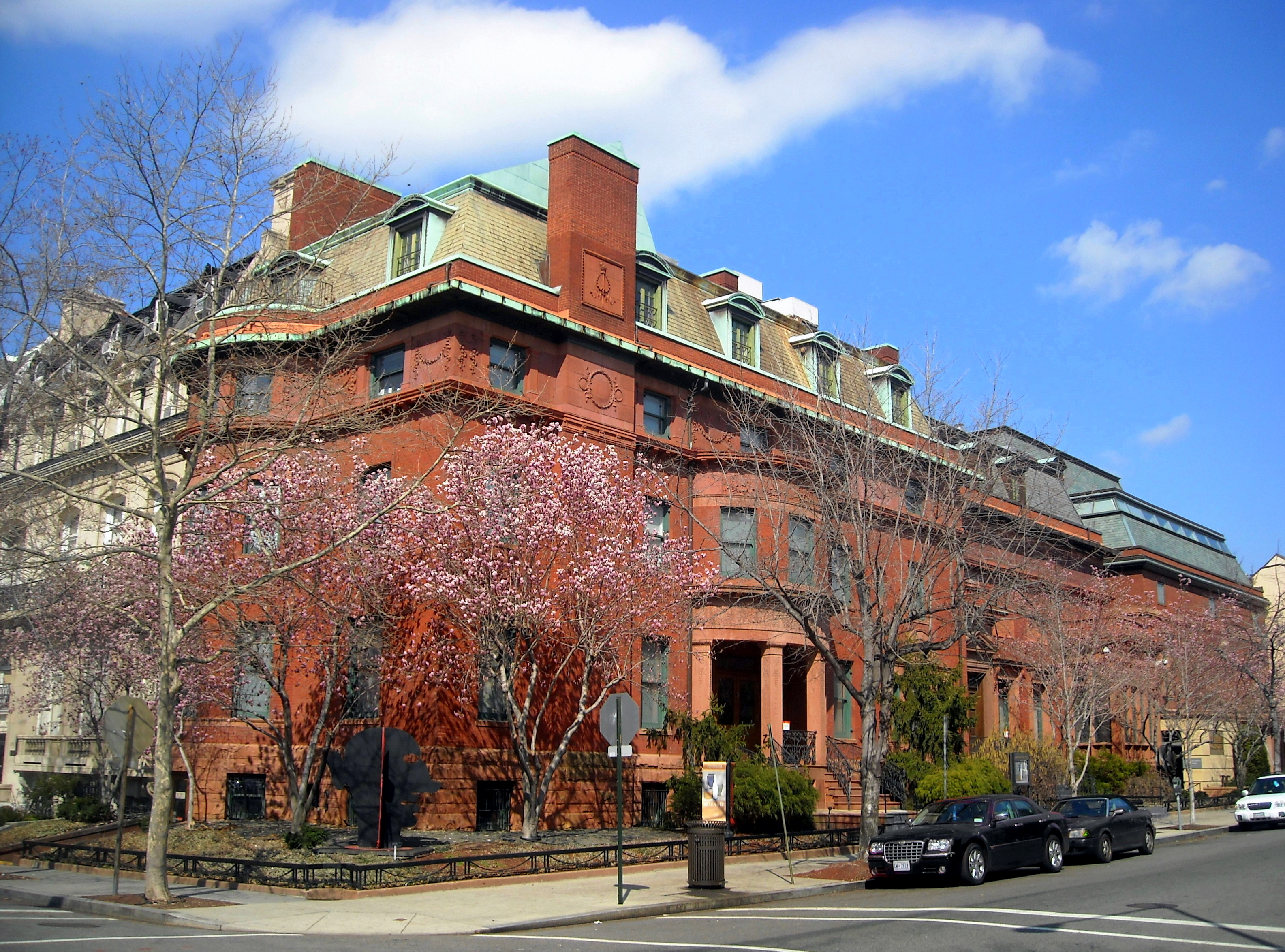 The Phillips Collection, America's first museum of modern art, located at 1600 21st Street, NW in the Dupont Circle neighborhood of Washington, D.C. Founded in 1921 by Duncan Phillips, the museum is housed in three adjoining buildings including Phillips' Georgian Revival home. The Duncan Phillips House (center), designed by architects Hornblower and Marshall in 1897, is listed on the National Register of Historic Places and is a contributing property to the Dupont Circle Historic District. The Embassy of India, also known as the Thomas Murray House, is the building seen on the left.